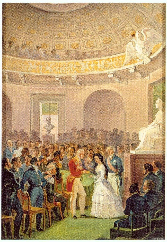 Self-depiction of the artist graduating from the Imperial Academy of Arts